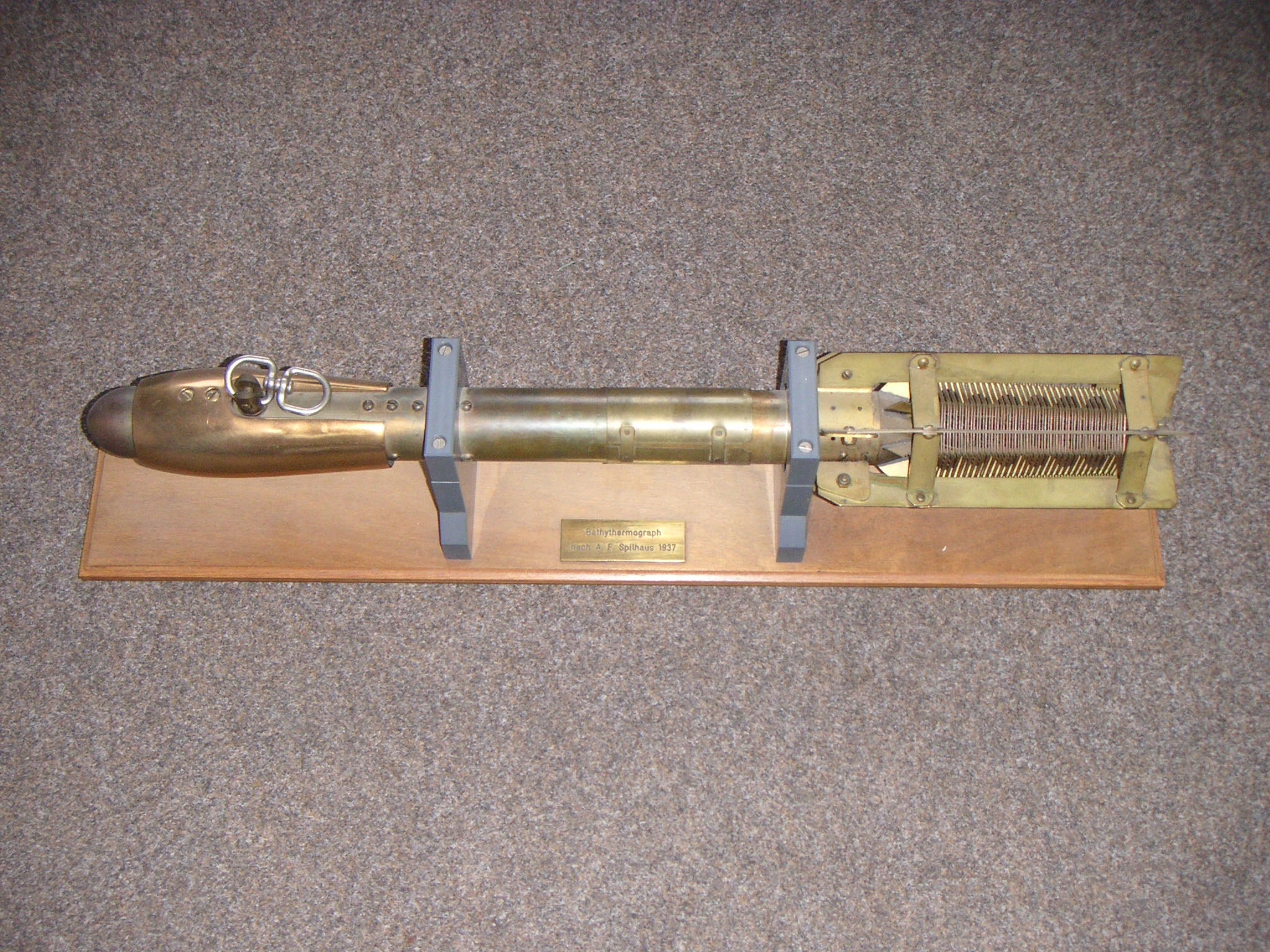 Bathythermograph